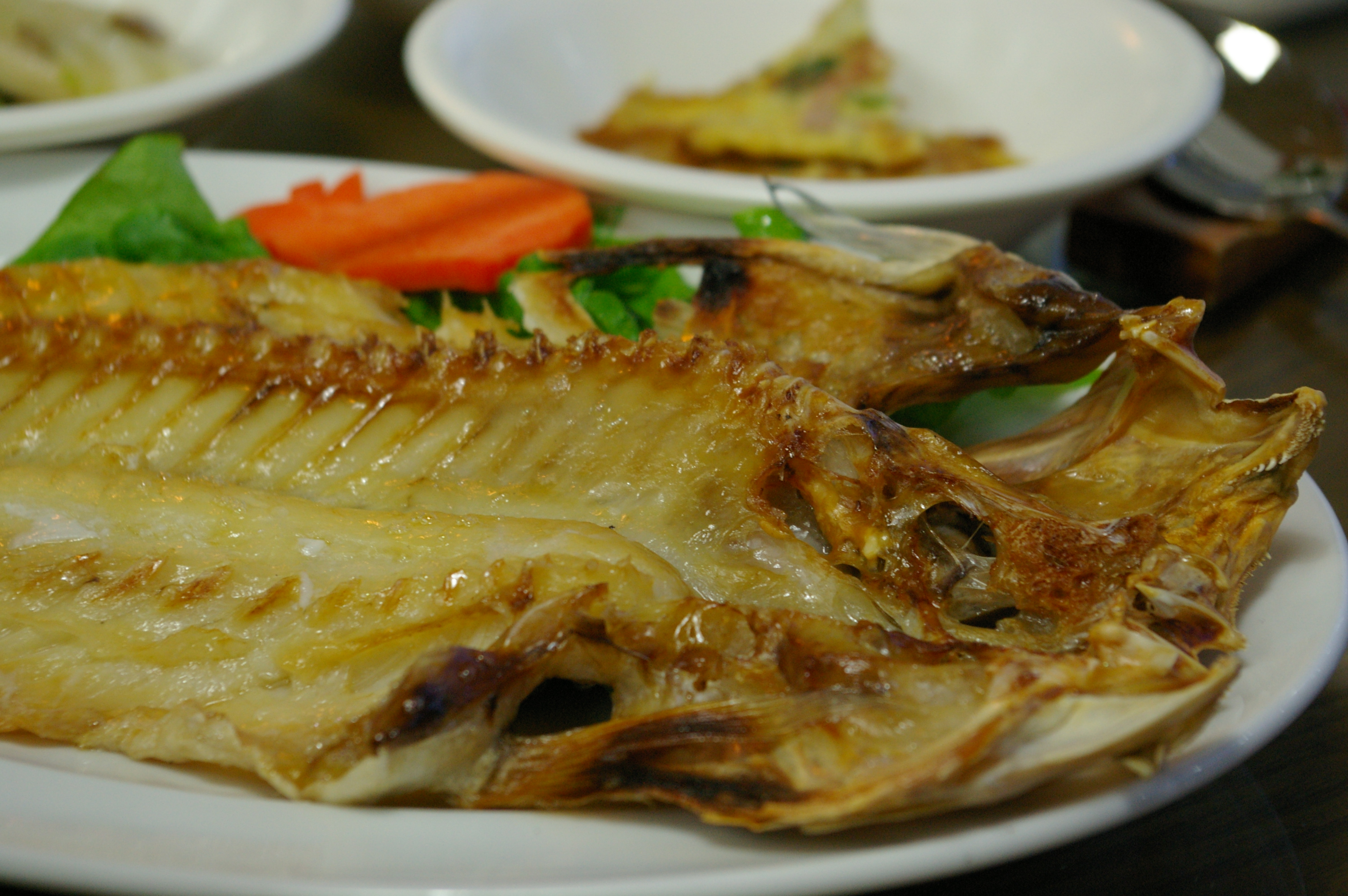 Okdom gui made by grilling Tilefish or okdom in Korean (Blue blanquillo), which is a local specialty of Jeju Island, South Korea.